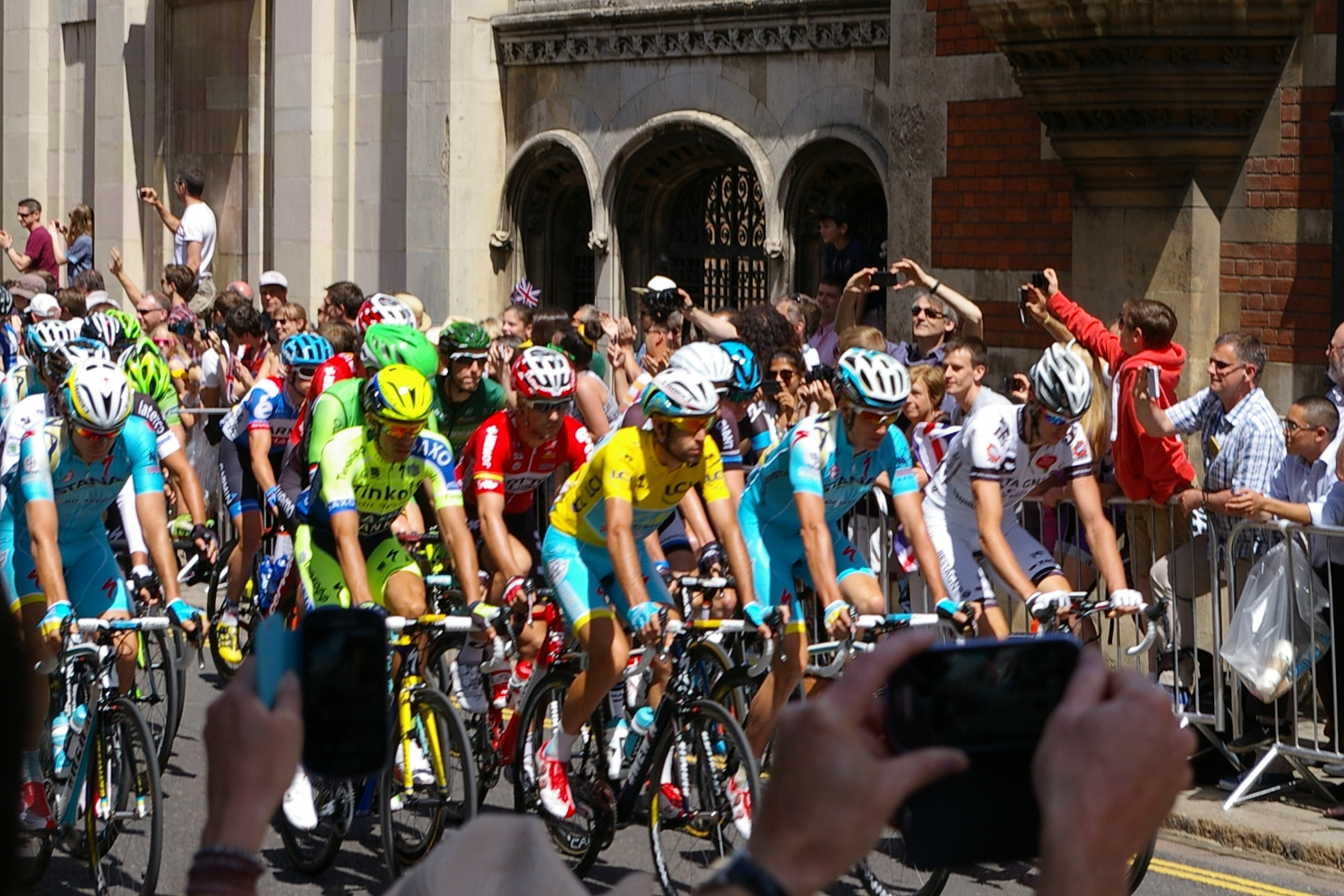 Tour de France in Cambridge